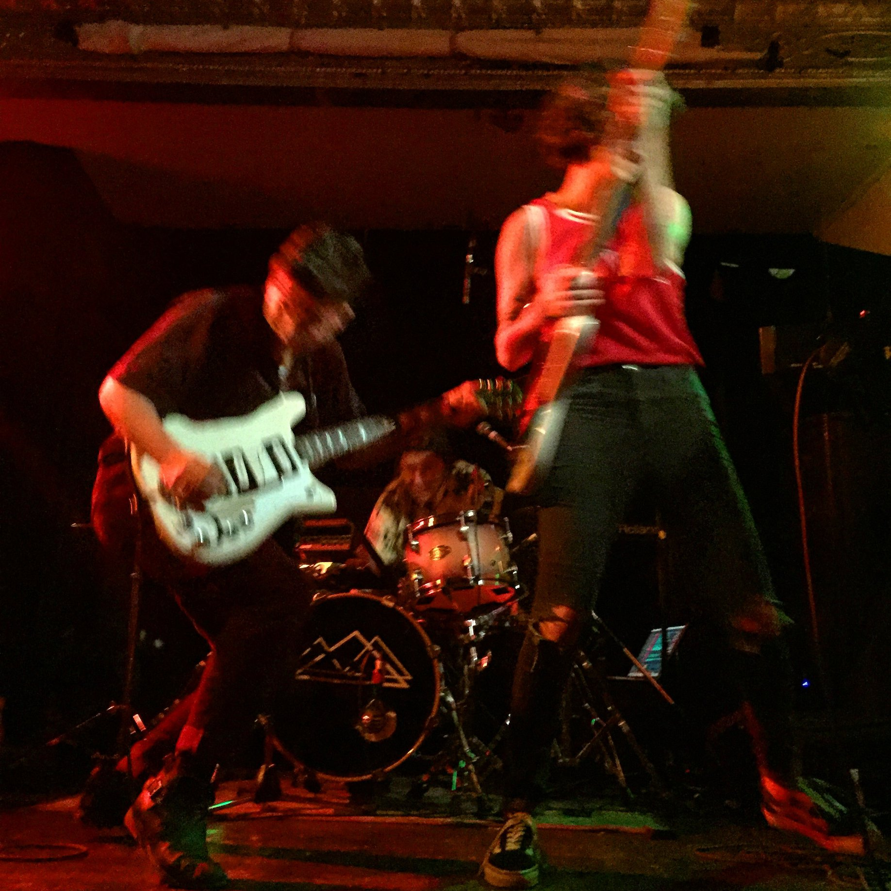 Canadian indie pop band Caveboy perform at Casa Del Popolo on September 28, 2018 as part of Pop Montreal International Music Festival